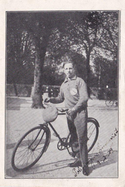 Polycarpus Lindqvist promotional foto